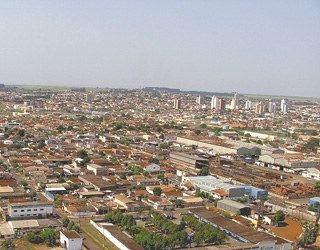 Panoramic picture of sertãozinho city